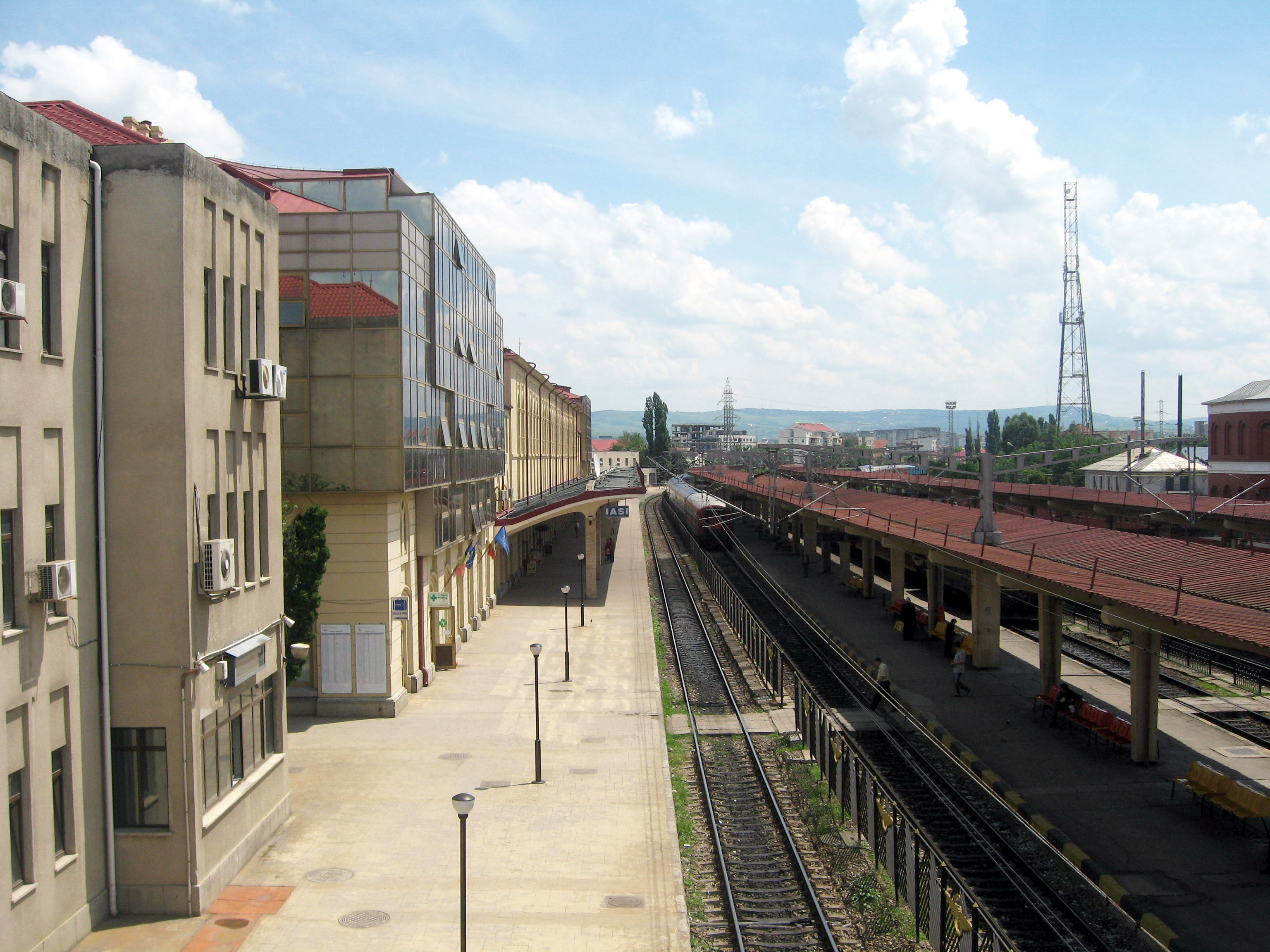 Iași Railway Stations